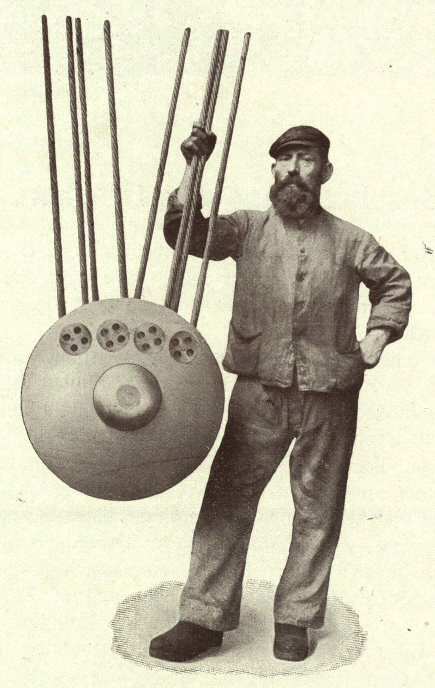 Cologne Cathedral: Kaiserglocke steel clapper, 1909.